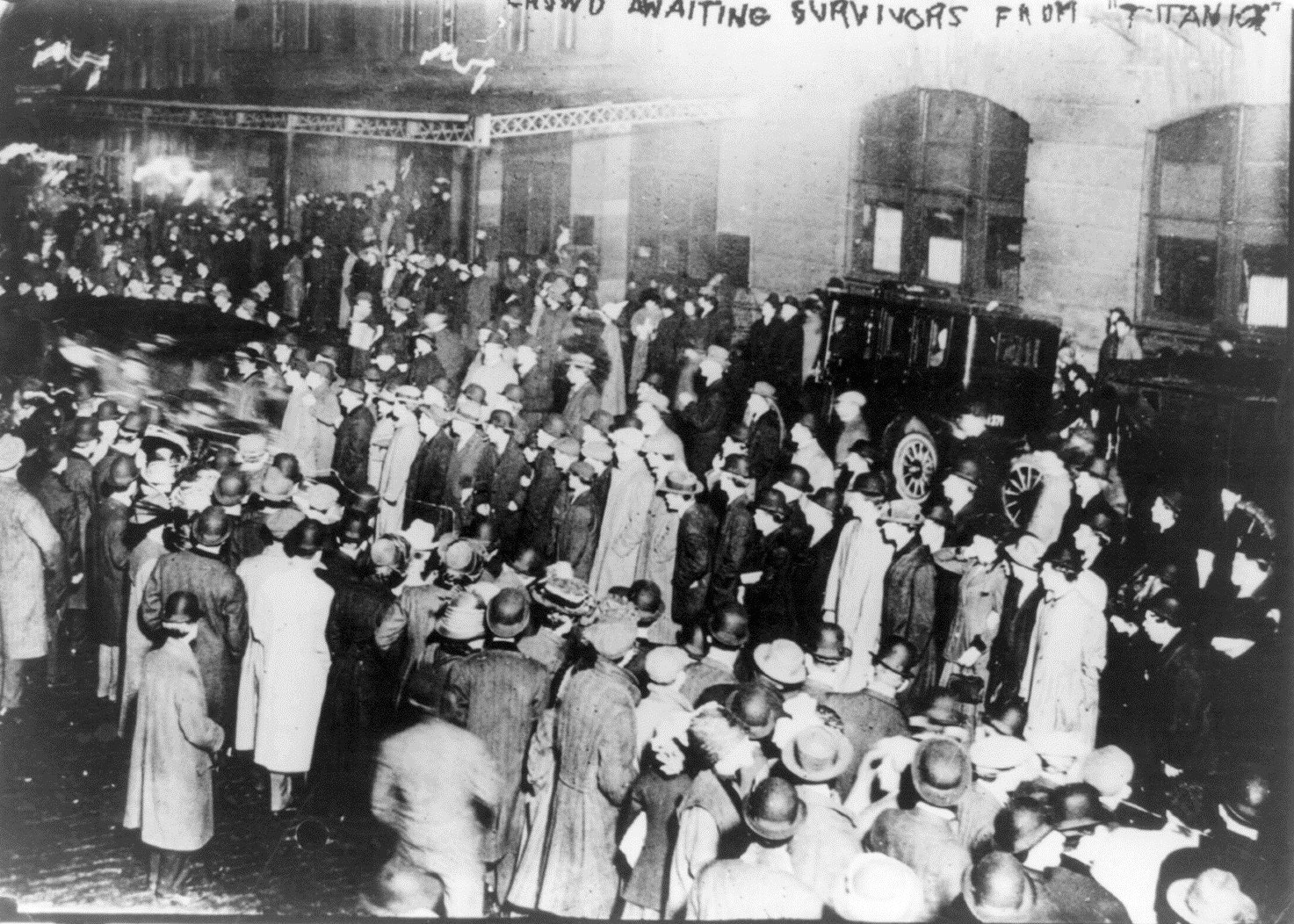 The crowd at the doors of the Cunard Line's Pier 54, where the ship Carpathia had arrived with survivors of the Titanic disaster aboard. The Carpathia arrived in New York in the evening of April 18, 1912; its arrival was delayed due to bad weather at sea. Since there had been many erroneous newspaper stories about the number of those rescued from the Titanic, including one that claimed the ship was damaged and afloat, being towed to Halifax, Nova Scotia, the real extent of the loss of life wasn't evident until the survivors of the disaster arrived in New York.